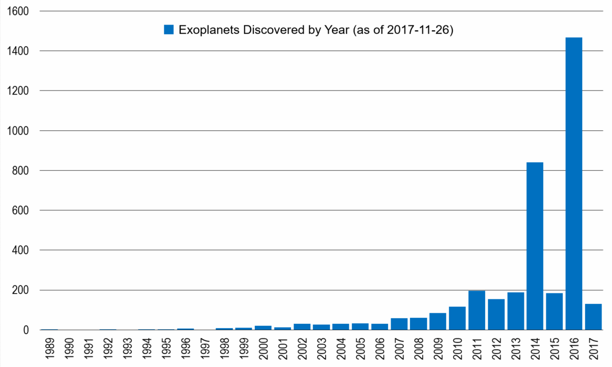 Histogram Chart of Discovered Exoplanets as of 2017-11-26